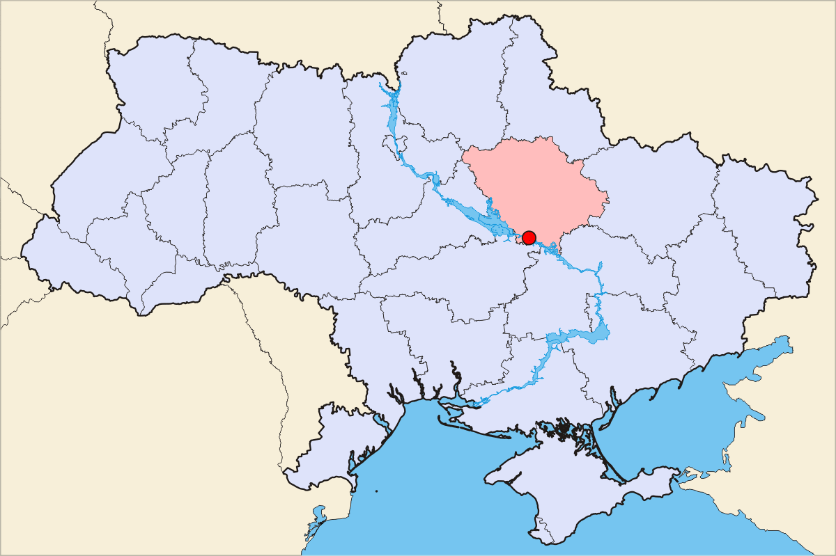 Description = Komsomolsk geographical position Source = own work, Skluesener Date = 15.01.2006 Author = Skluesener Credits = Colours chosen according to a map of steschke